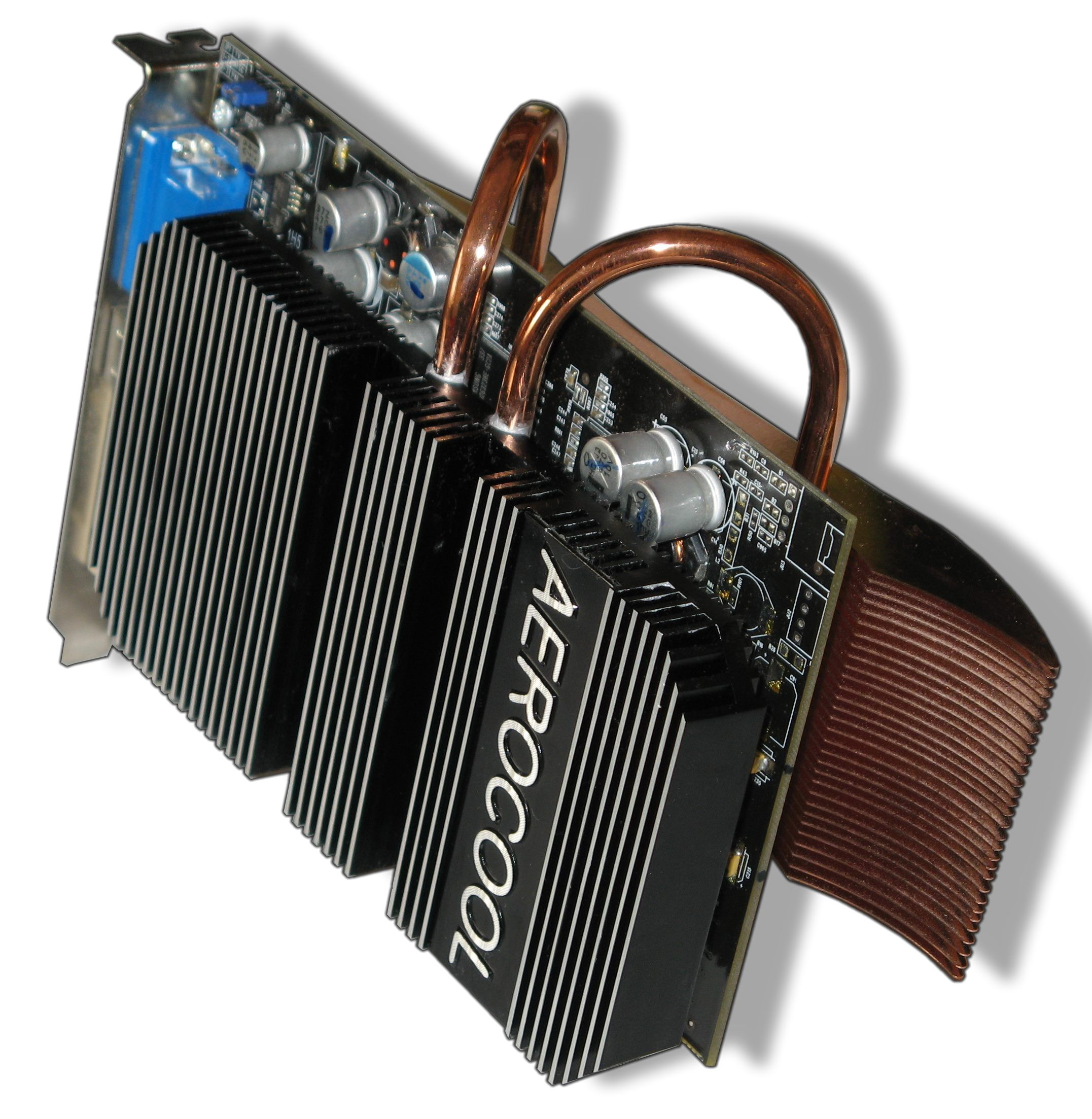 Radeon 9600XT graphic card with heatpipe